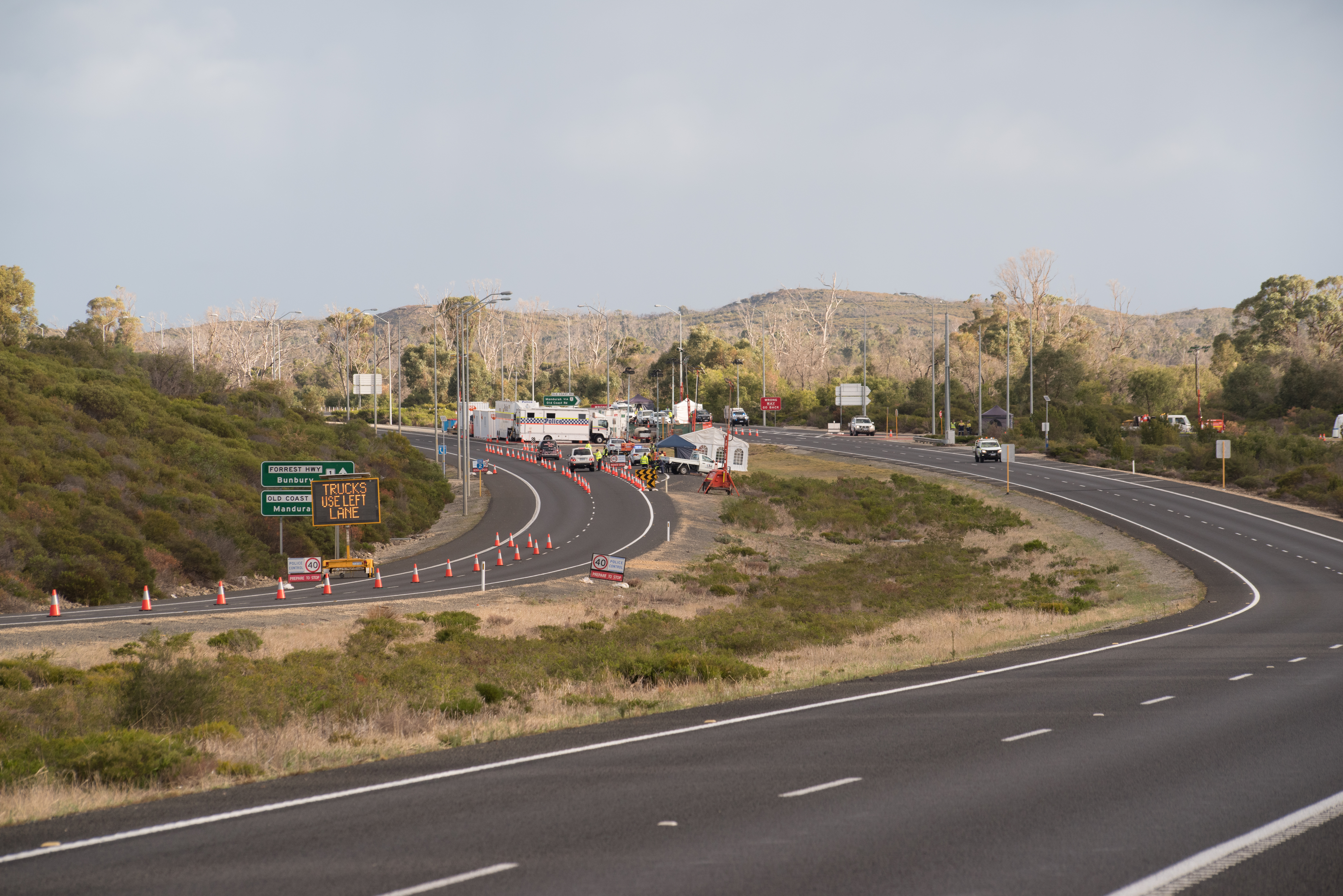 The whole border security area on Forrest Hwy, only vehicles with permission are permitted to continue past this point.